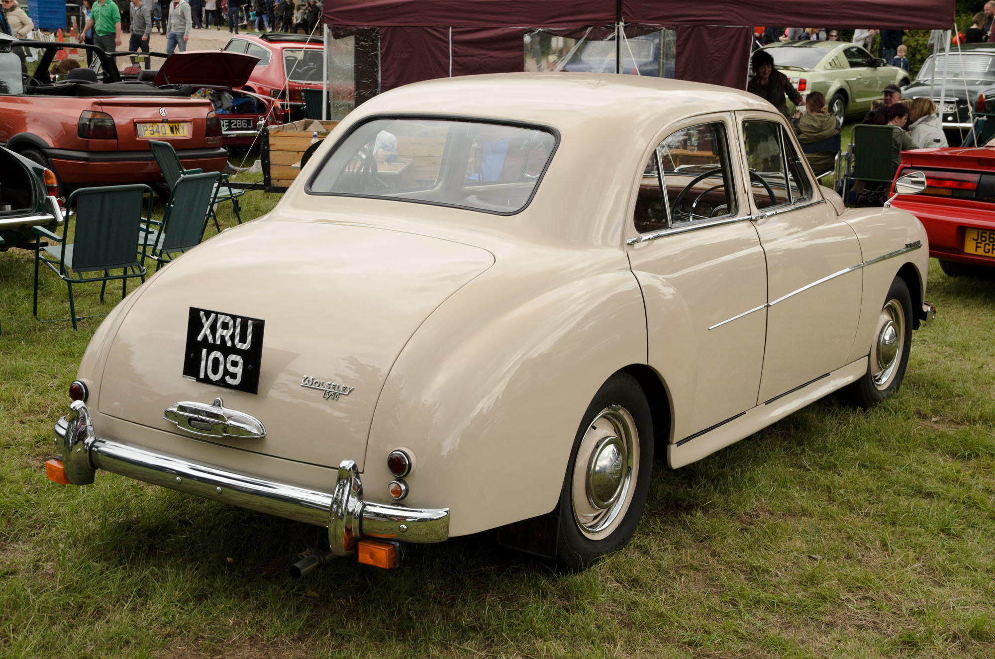 Trentham Gardens Classic Car Show 21/06/2015